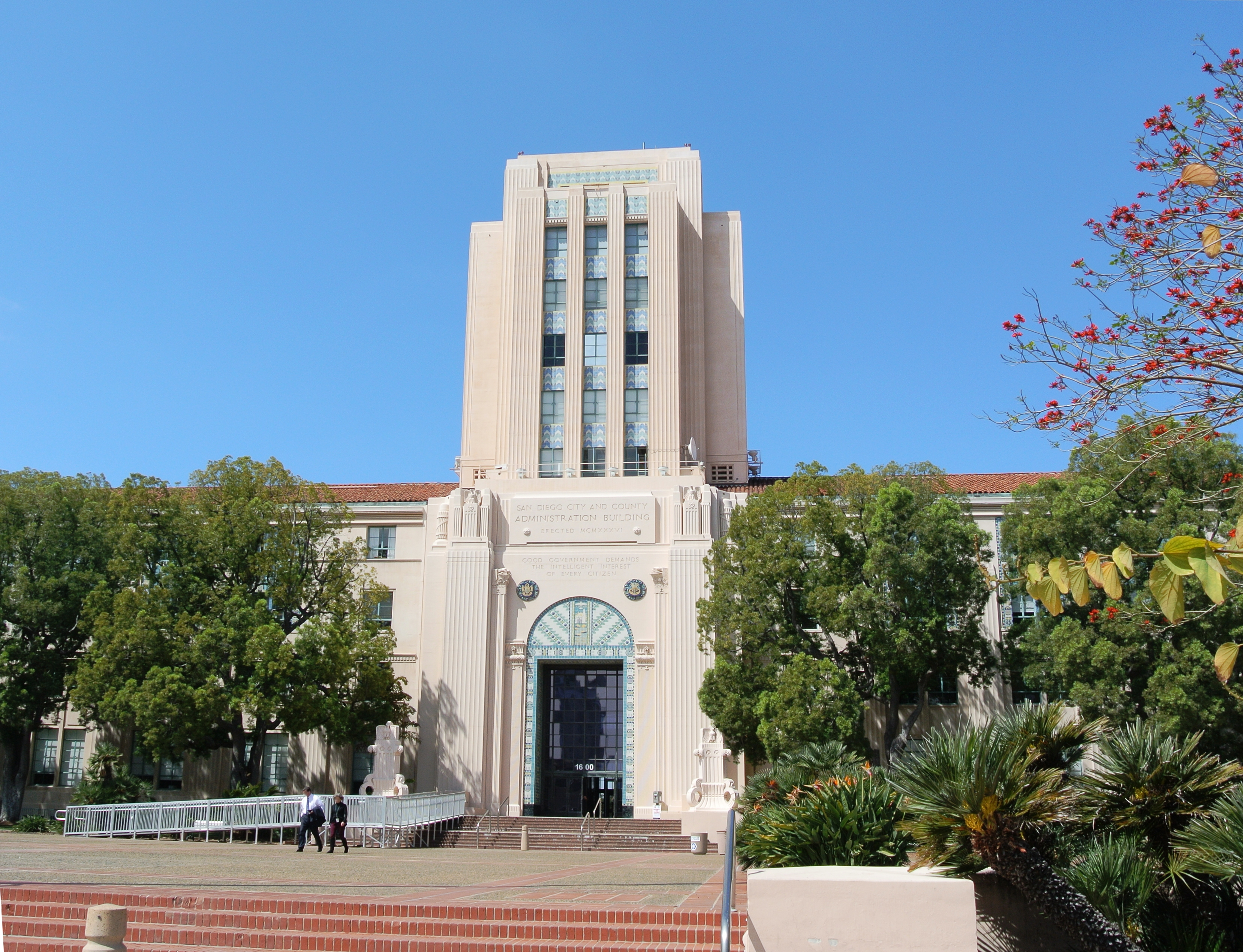 San Diego County Administration Building, 1600 N Harbor Drive, San Diego. The city has had a separate City Hall since 1964.